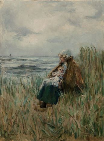 Woman with her Child at the Seashore